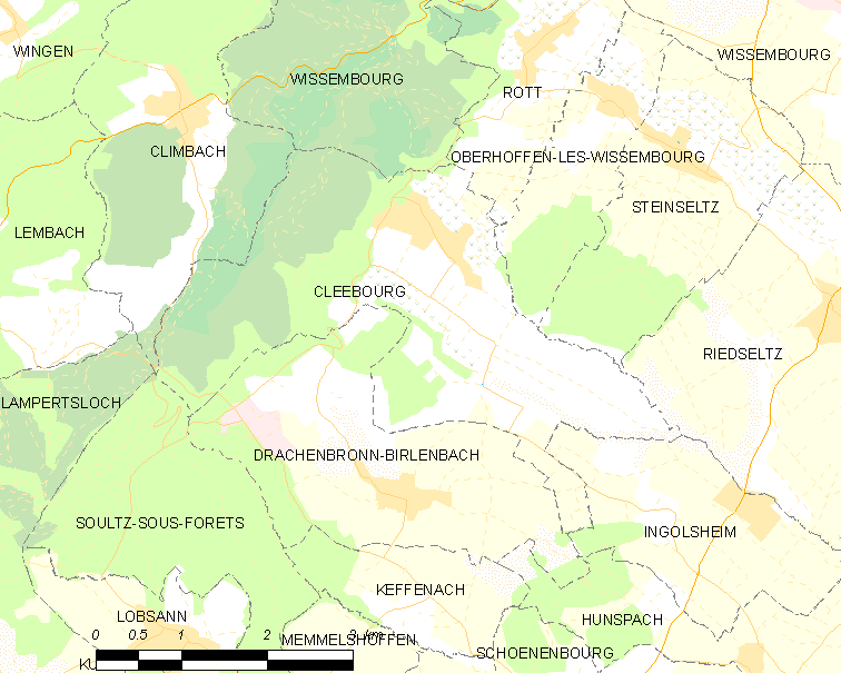 Map of French municipality